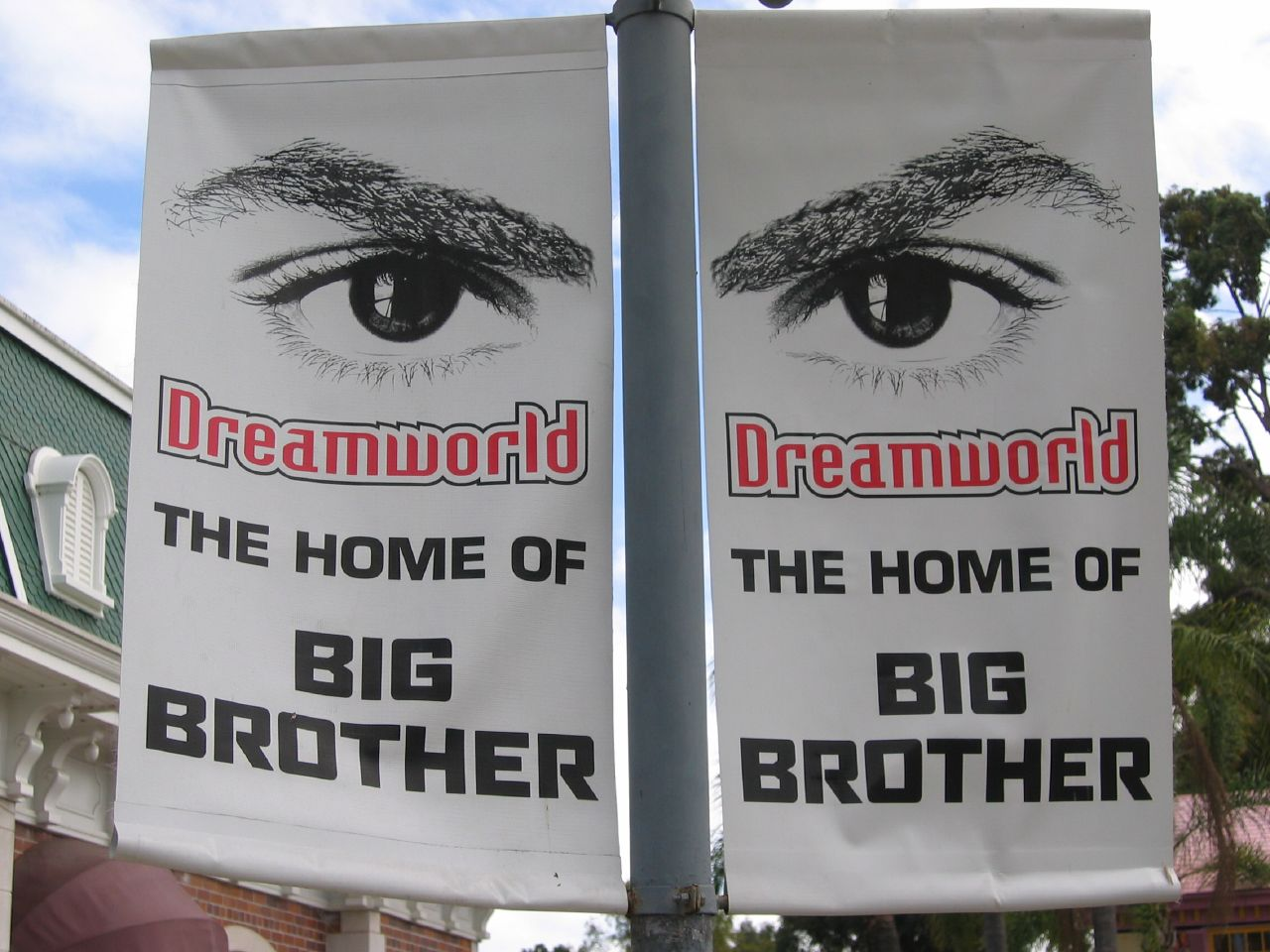 Dreamworld: The Home of Big Brother Australia banners near the park entrance.